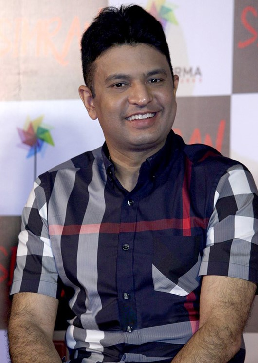 Bhushan Kumar at the launch of Simran trailer.